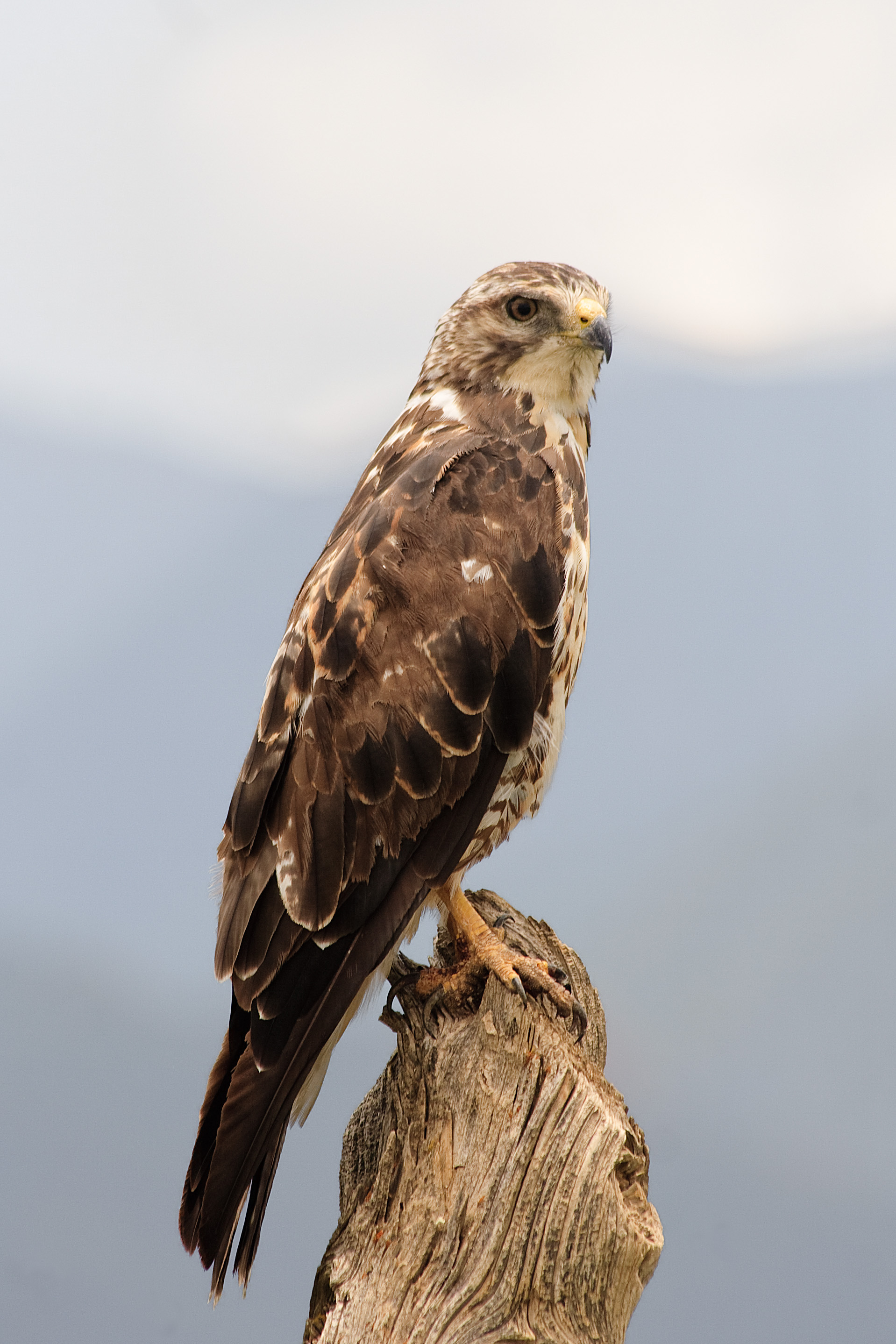 Juvenile Swainson's Hawk seen in Saguache County, Colorado U.S.A.